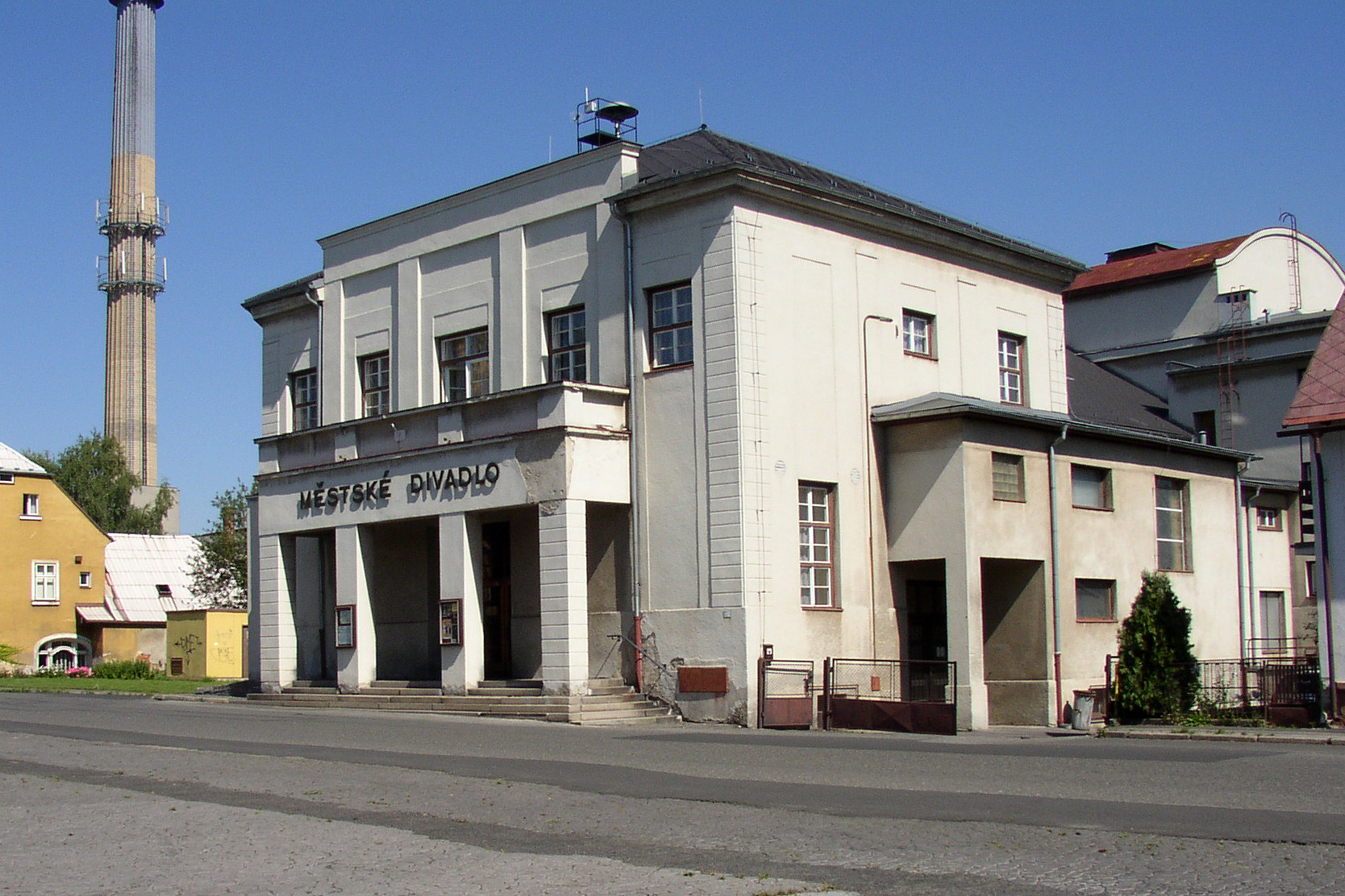 Theatre of Varnsdorf